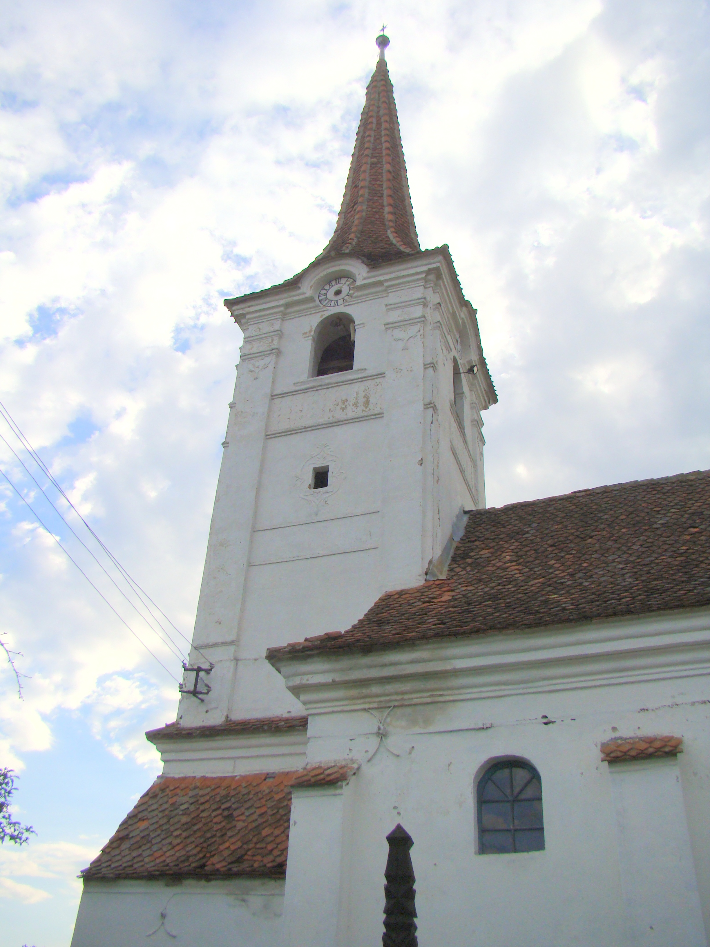 Unitarian church in Satu Nou, Harghita County, Romania